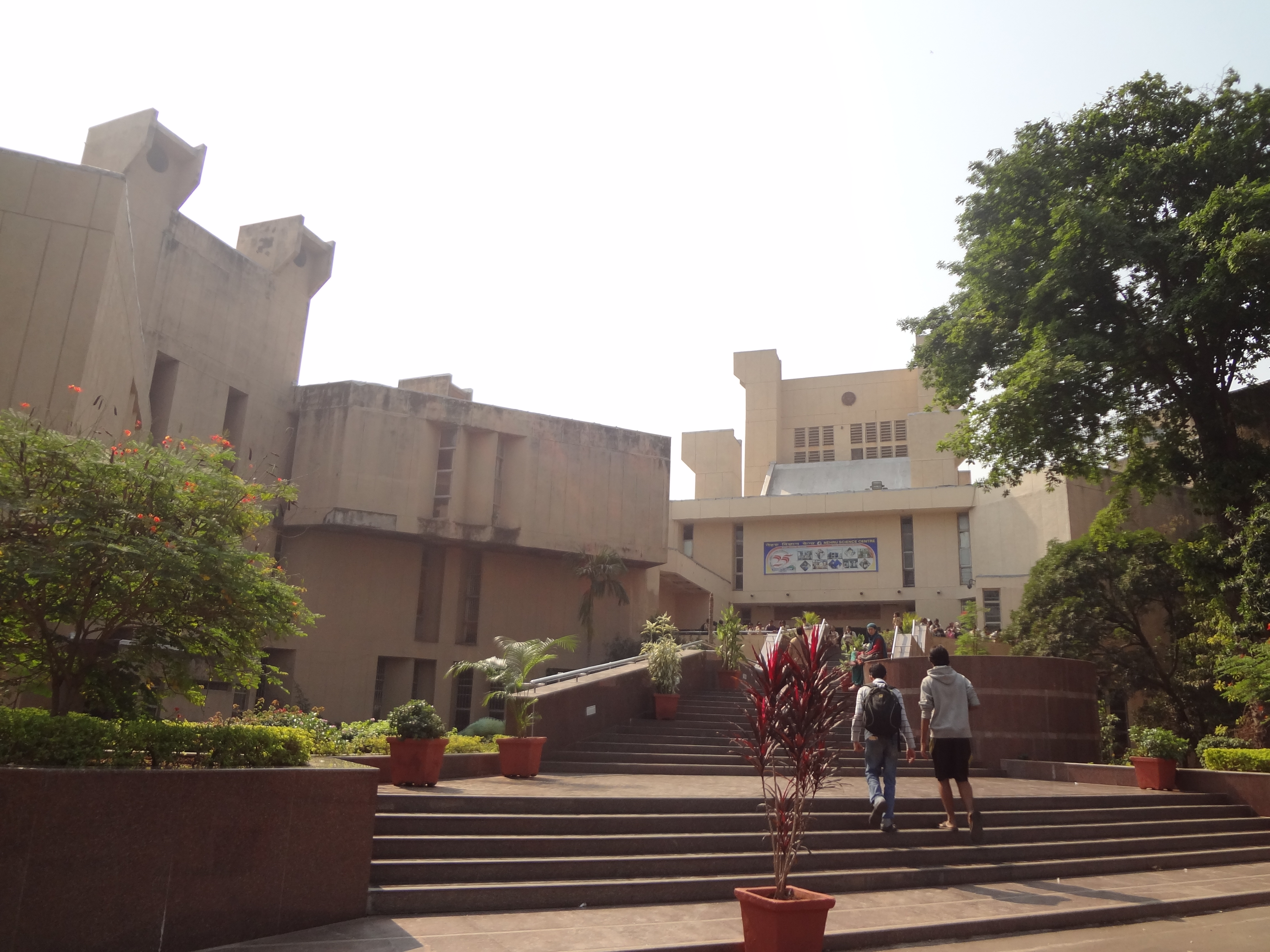 Mumbai Photowalk II